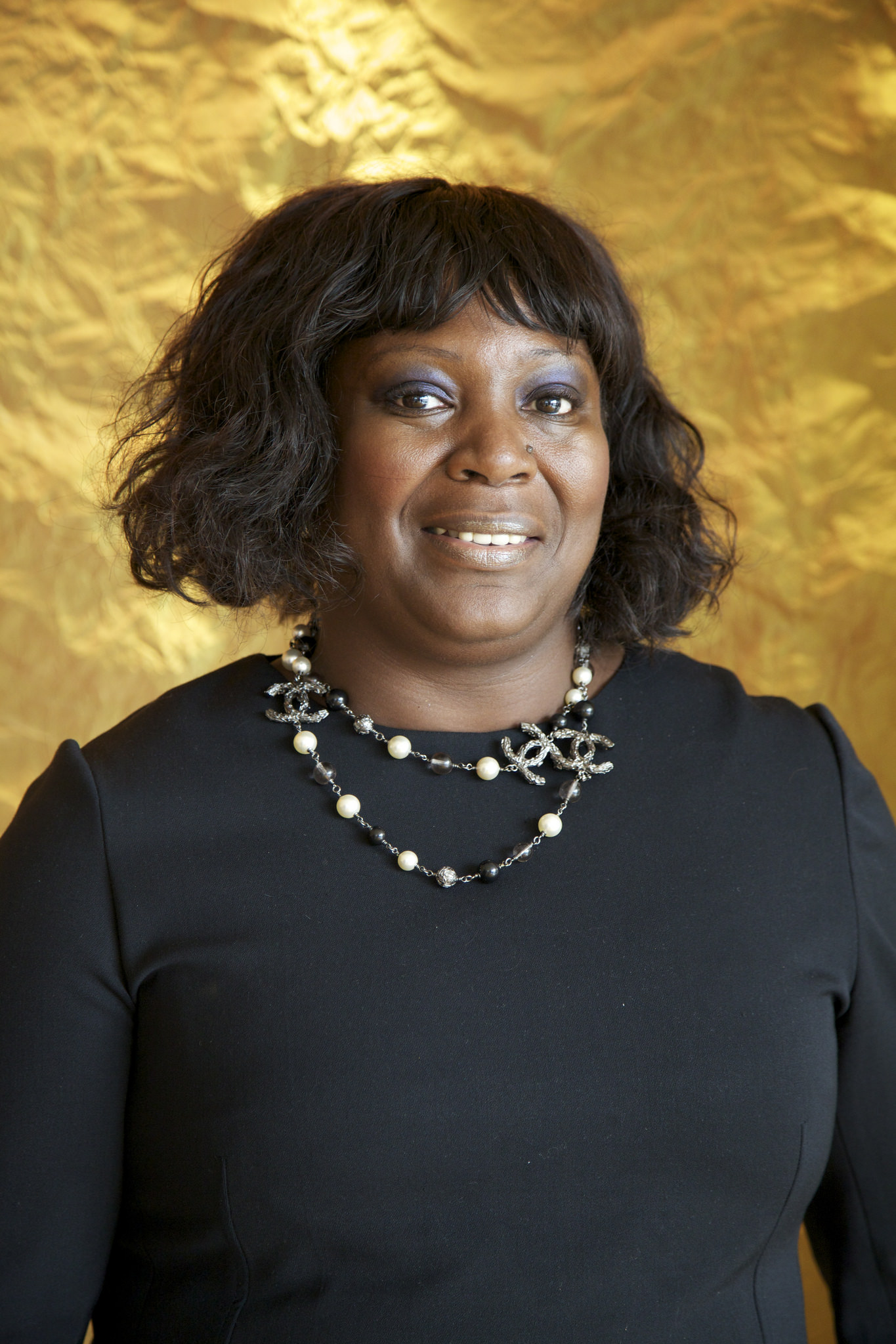 Heather Melville profile photo, July 7, 2015, from the public domain